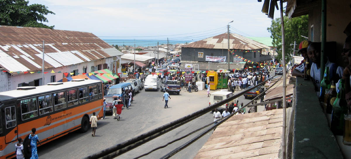 Winneba, a coastal city near me during the Aboakyer Festival, one of the big ones in Ghana.